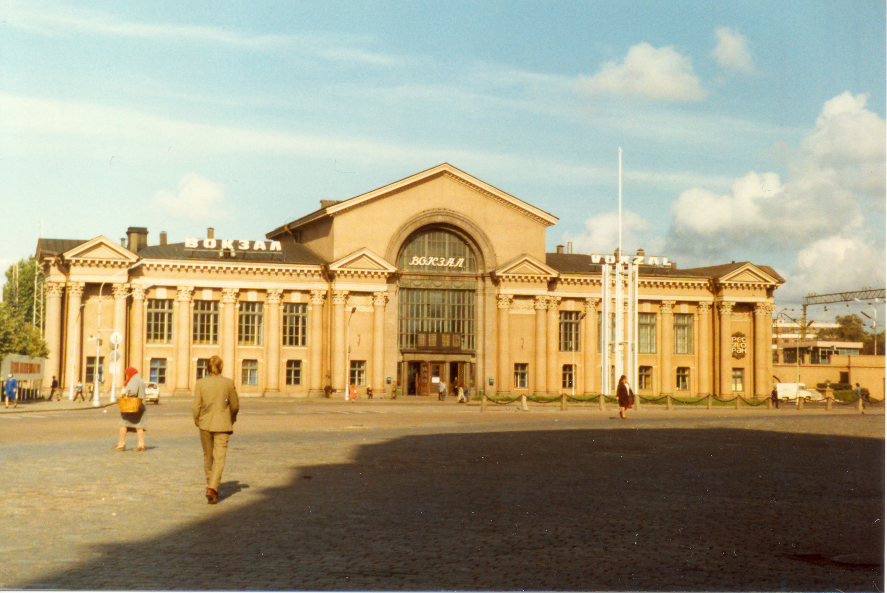 Train station in Vyborg in September 1980